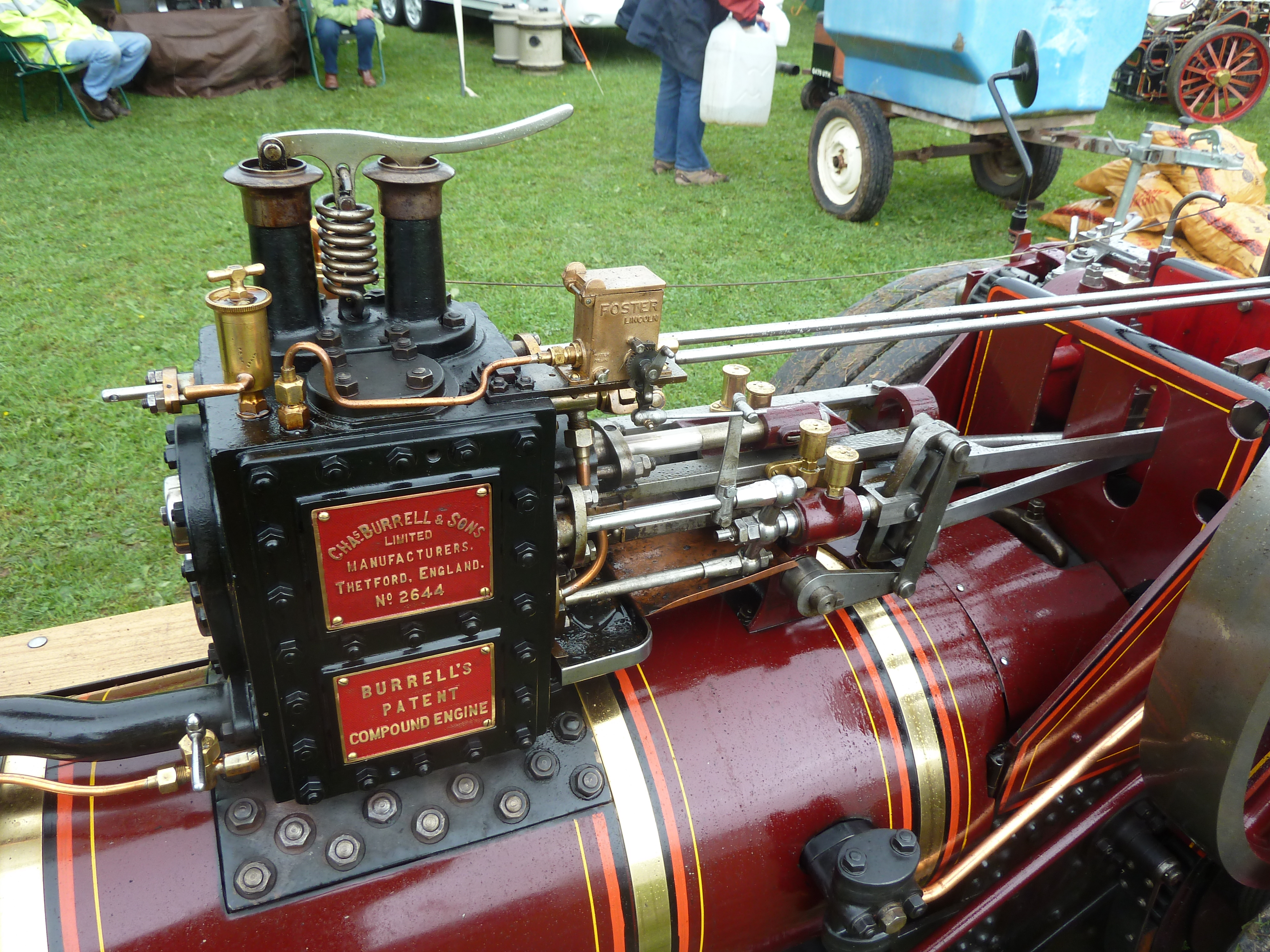 6" scale (1:2) traction engine. This is a Burell single crank compound, showing the single Stephenson link valvegear and the yoke to drive the two slide valves. Abergavenny steam rally, 2012.